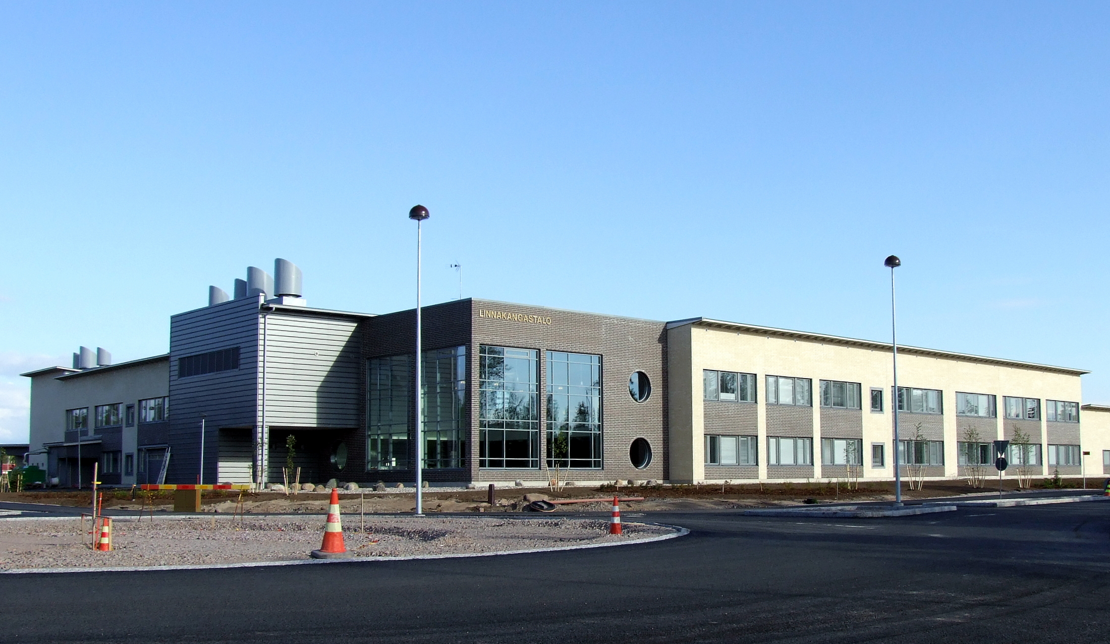 Linnakangastalo is a municipal multipurpose building in Linnakangas neighbourhood in Kempele, Finland. The building has been completed in August 2008. It was designed by architect Veli Kulusjärvi from the architects' office Arkkitehtitoimisto Väisänen Oy. Main functions of Linnakangastalo will be a kindergarten and an elementary school.